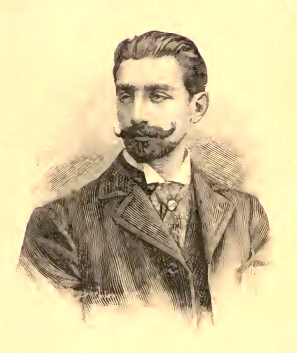 Portrait of the author by Emile Derbier in the book Lueurs d'Orient, Flammarion, Paris, 1896